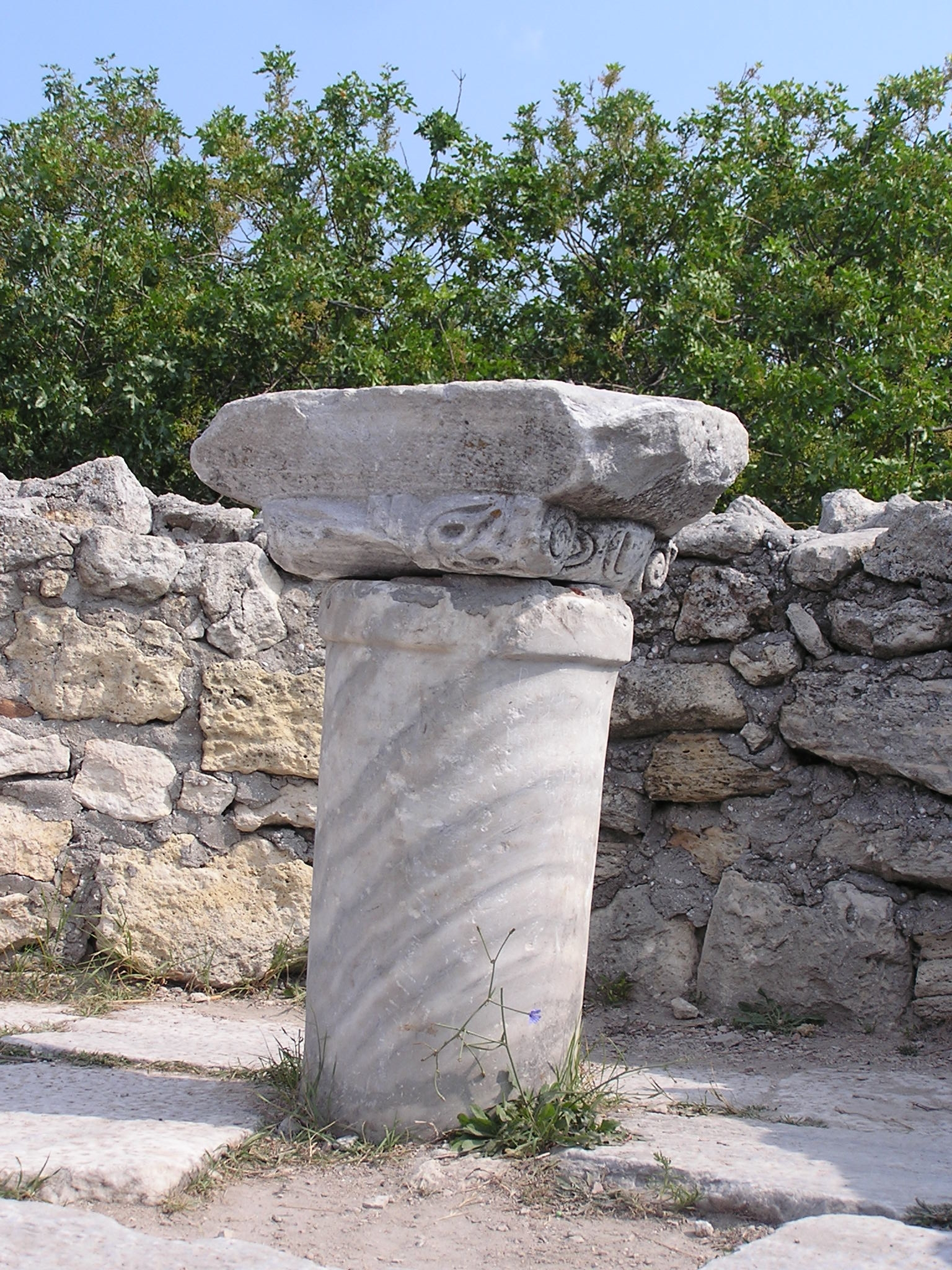 Sebastopol (Crimea, Ukraine). Ruins of Chersonesos Taurica. Altar stone of Basilica in basilica - a medieval church in the Chersonesos Taurica - city, founded by the ancient Greeks in the south-west coast of the Crimea (now - in the National Museum "Chersonesos Taurica"). Temple got its name from the fact that at one point had been built two temples - the second was built on the ruins of the first of its wreckage.